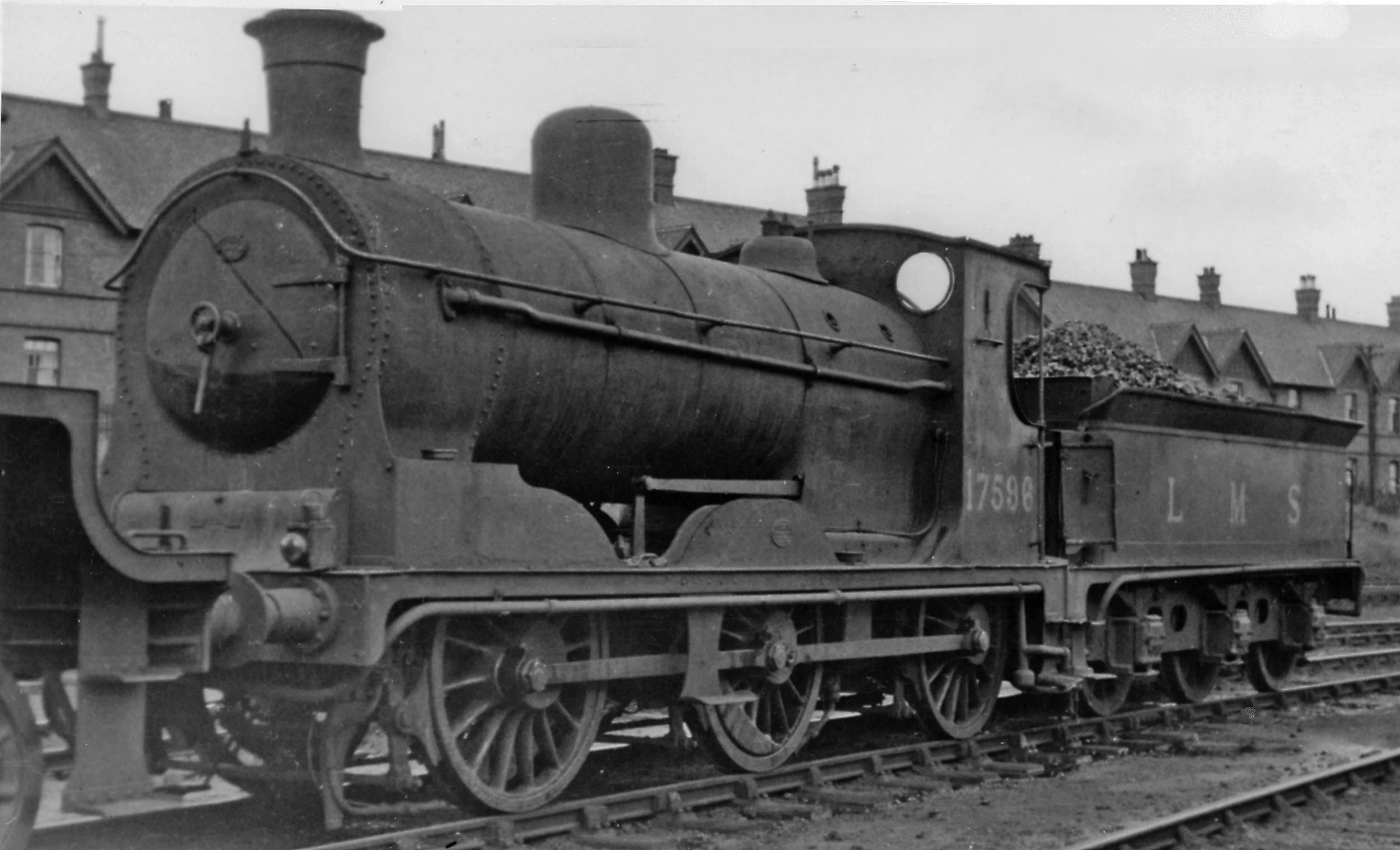 Ex-Caledonian '812' class 0-6-0 Corkerhill Locomotive Depot. At the Glasgow Depot of the ex-Glasgow & South-Western Railway, resting on a Sunday is ex-Caledonian McIntosh '812' class 3F 0-6-0 No. 17596 - still 'LMS' and not yet renumbered, built c. 1905 and withdrawn 10/61. In 1946, Corkerhill (coded 30A) had an allocation of 95 locomotives:- 15 4-6-0, 28 4-4-0, 11 2-6-0, 24 0-6-0, 5 0-6-0T and 12 0-4-4T; the majority were ex-Caledonian and only 3 ex-G&SW remained.